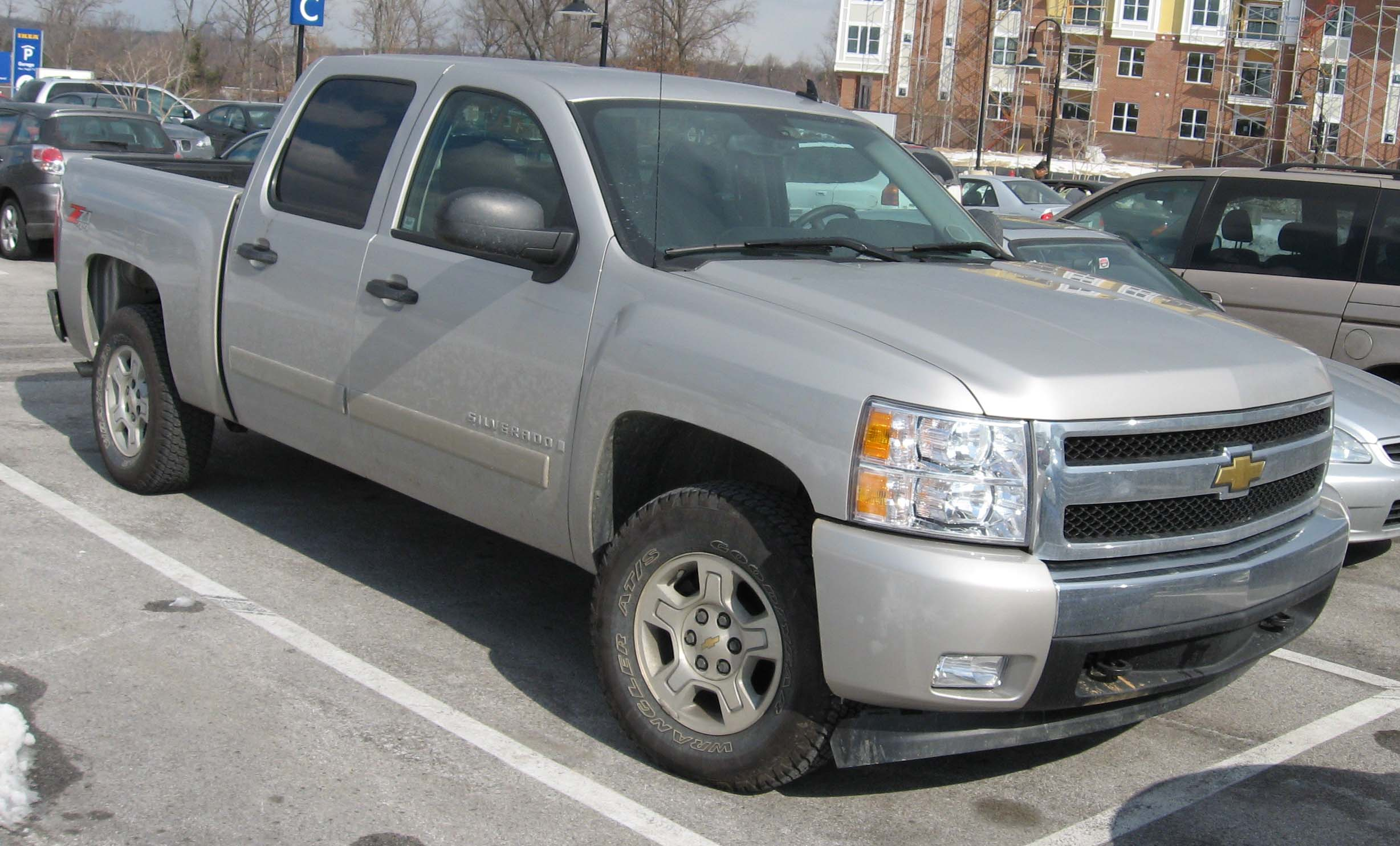 2007 Chevrolet Silverado photographed in USA.